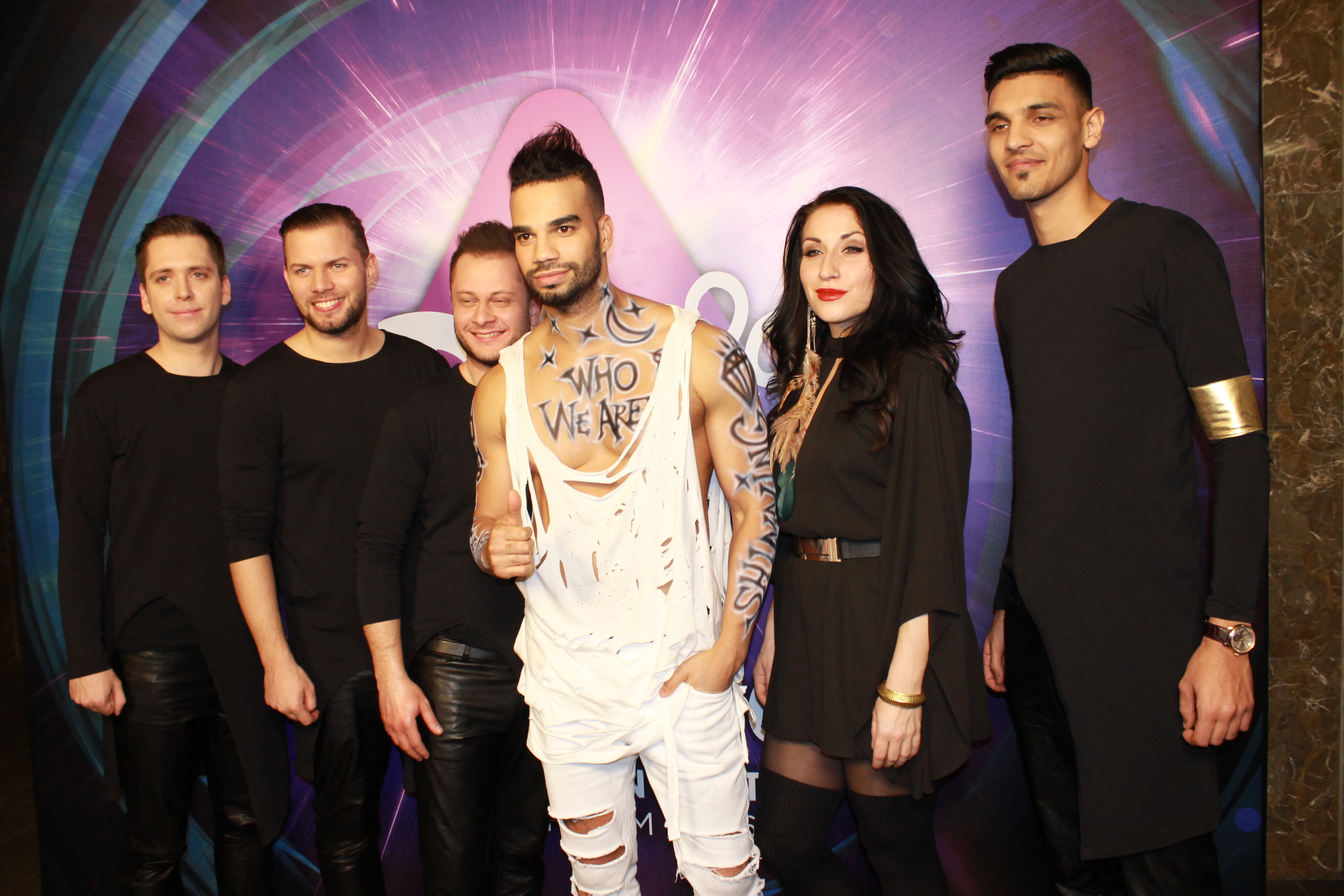 A Dal 2016 finalist: Kállay Saunders Band